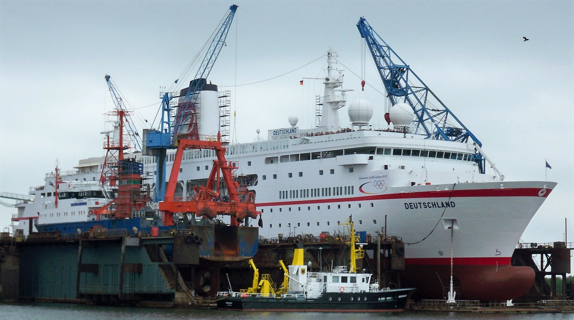 Cruise ship Deutschland, survey vessel Norderney and fishery research ship Walther Herweig III under overhaul at BREDO shipyard in Bremerhaven